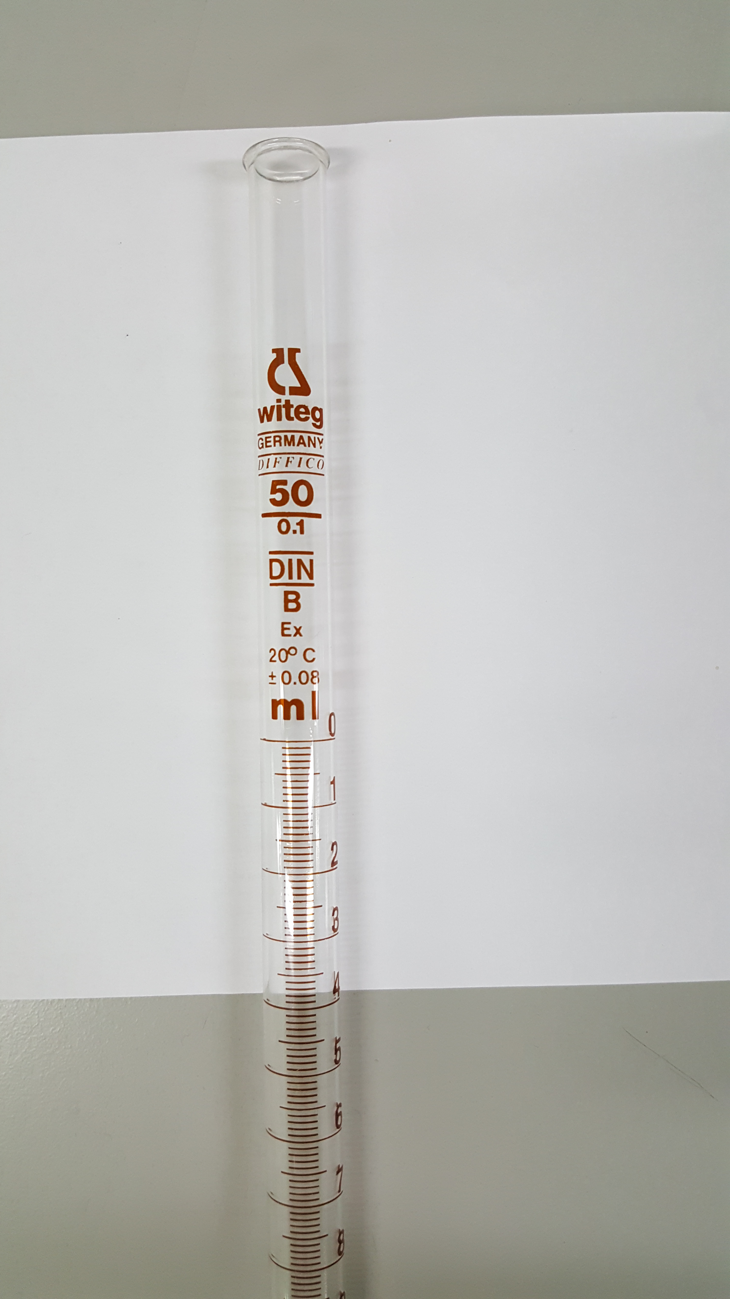 specication of burette